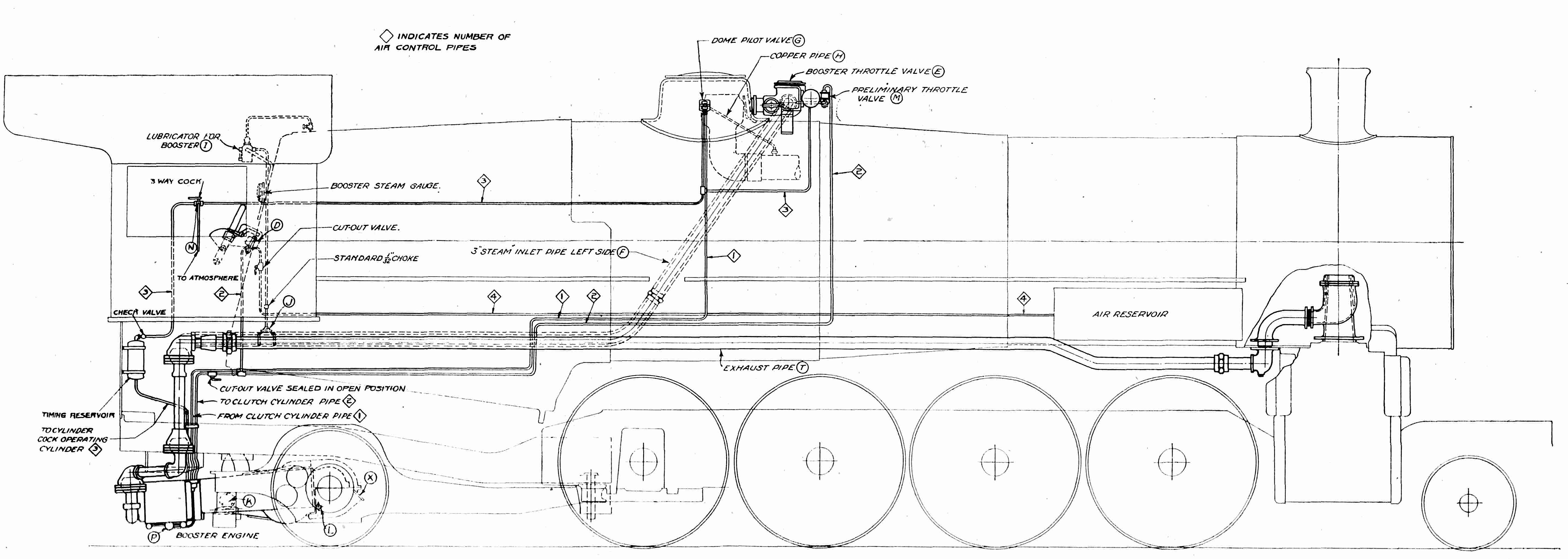 Booster engine installation layout.